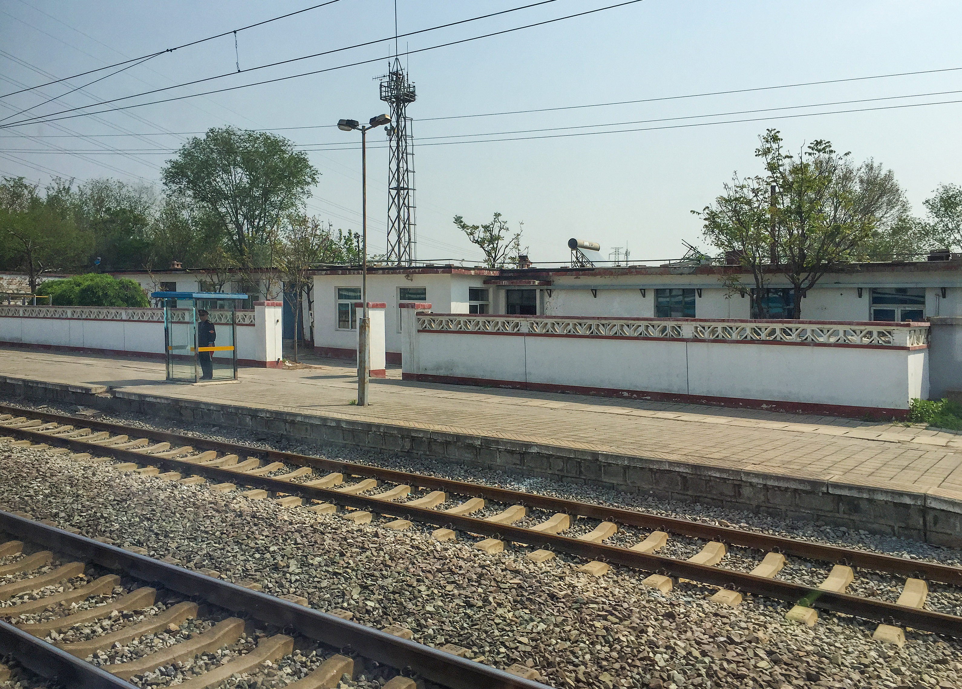 TMIS code 21146. This station has no running boards.